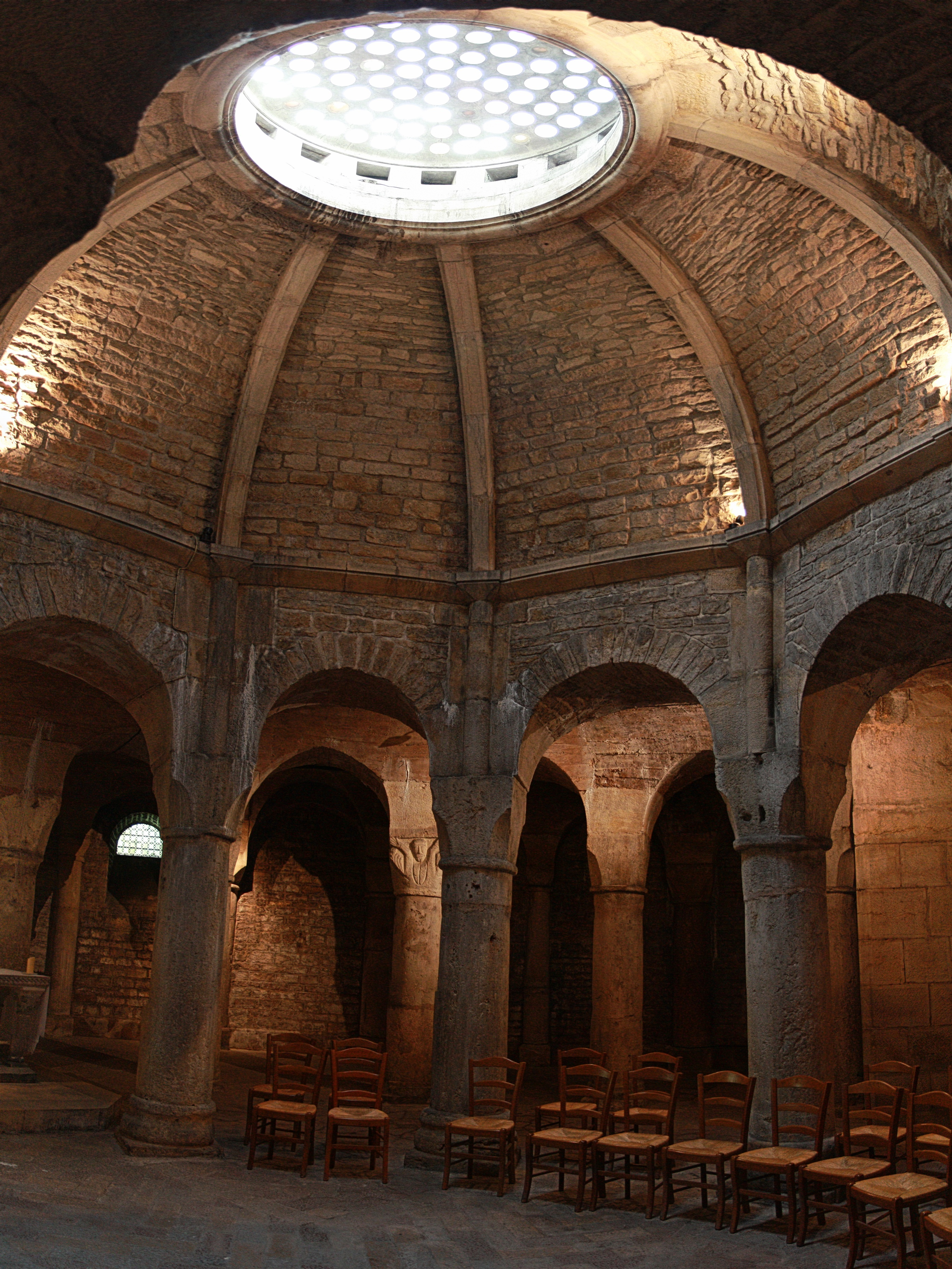 Crypt of Saint-Bénigne Cathedral in Dijon (France)